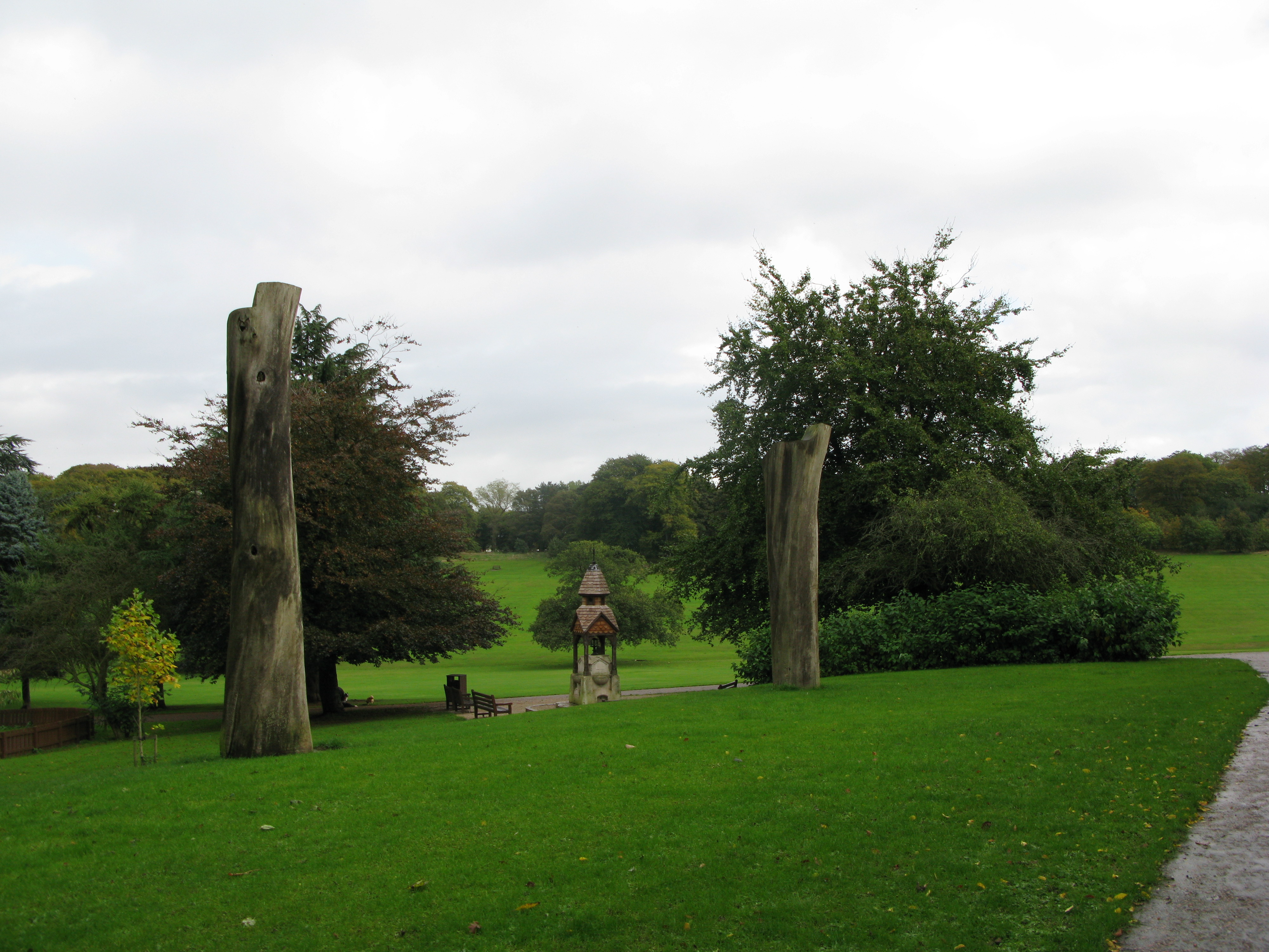 Grade II